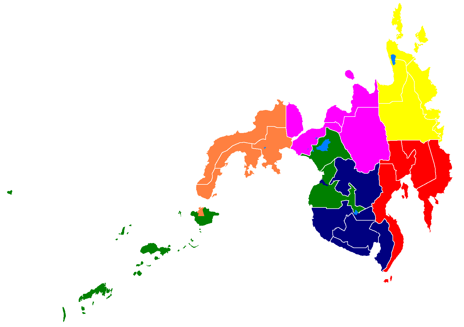 A map of Mindanao color-coded by regions. The six regions are: ORANGE Zamboanga Peninsula (Region IX) MAGENTA Northern Mindanao (Region X) RED Davao Region (Region XI) BLUE SOCCSKSARGEN (Region XII) YELLOW Caraga (Region XIII) GREEN Autonomous Region in Muslim Mindanao (ARMM)